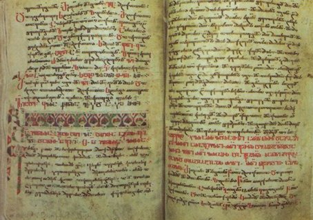 "the Big Synaxarion" written in the Georgian nuskhuri script. The manuscript (H-2211) is copied by the Georgian monks on the Black Mountain in Syria